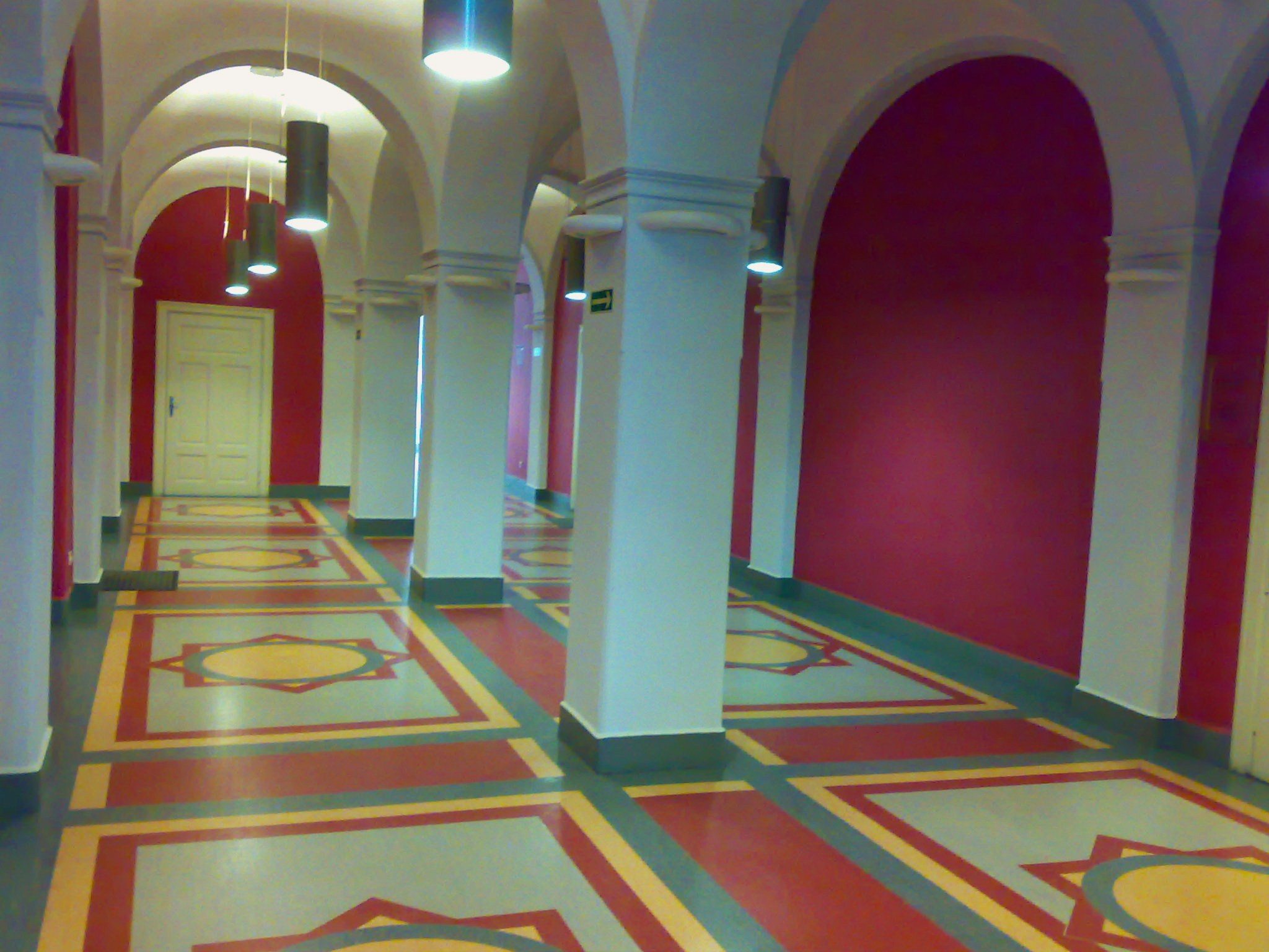 Rectorat of University of Technology, Poznan.